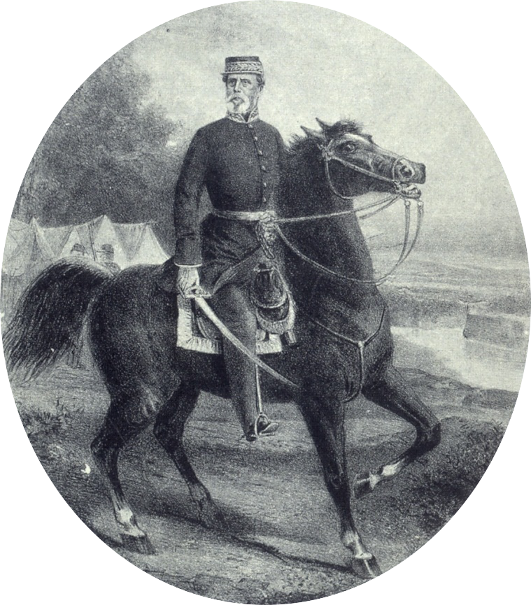 The Count of Porto Alegre, c.1866